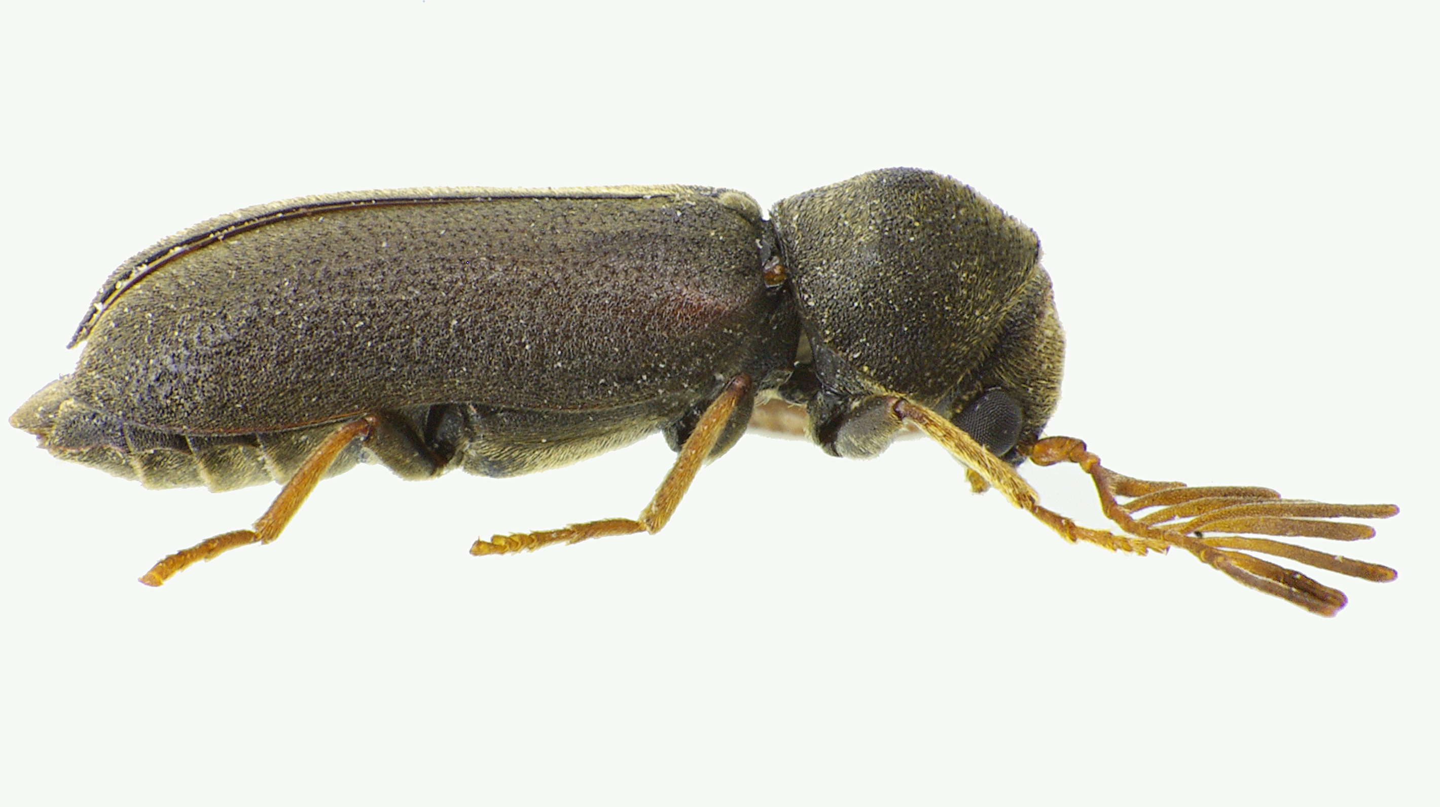 male Ptilinus pecticornis from South-West-Germany between Tuttlingen and Rottweil, 700 m